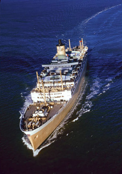 Description: 13-21- Views from middle of Golden Gate Bridge: British liner SS Orsova outward-bound, 4 hours late, heads for the Golden Gate on a clear, windy afternoon - shortly after 4 PM. seen from middle of Golden Gate Bridge Creator: Cushman, Charles Weever, 1896-1972 View source image or order reproductions. More information on the commercial rights for this photo. Part of Charles W. Cushman Collection Indiana University, Bloomington. University Archives. Brought to you by IMLS Digital Collections and Content. Unrestricted access; use with attribution.